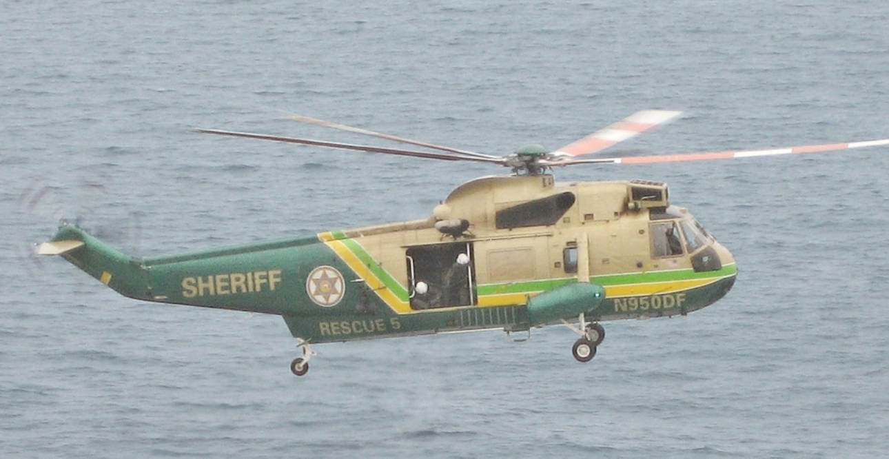 Los Angeles County Sheriff helicopter in flight, Sikorsky SH-3H, N950DF